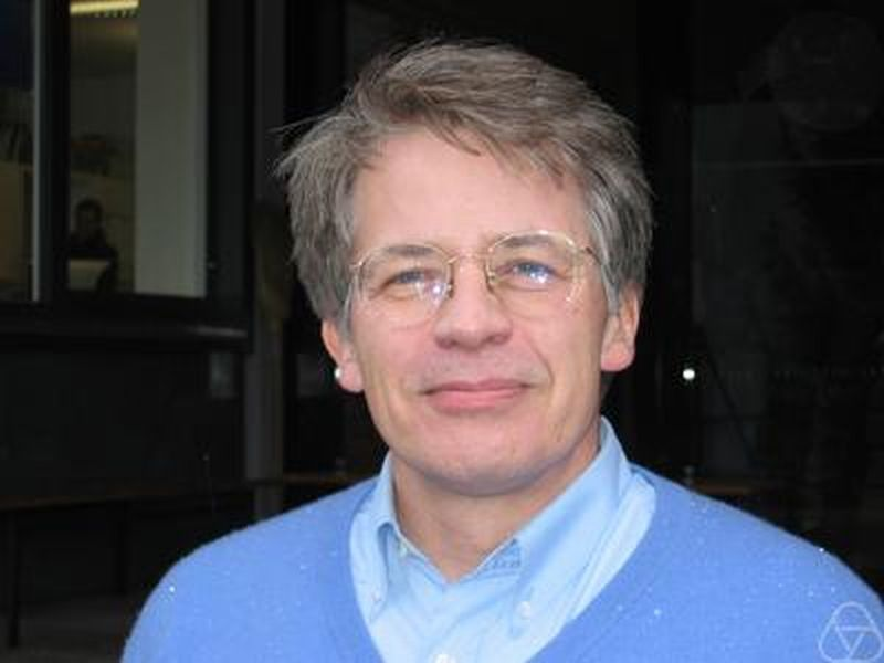 Robert L. Griess, Oberwolfach 2005